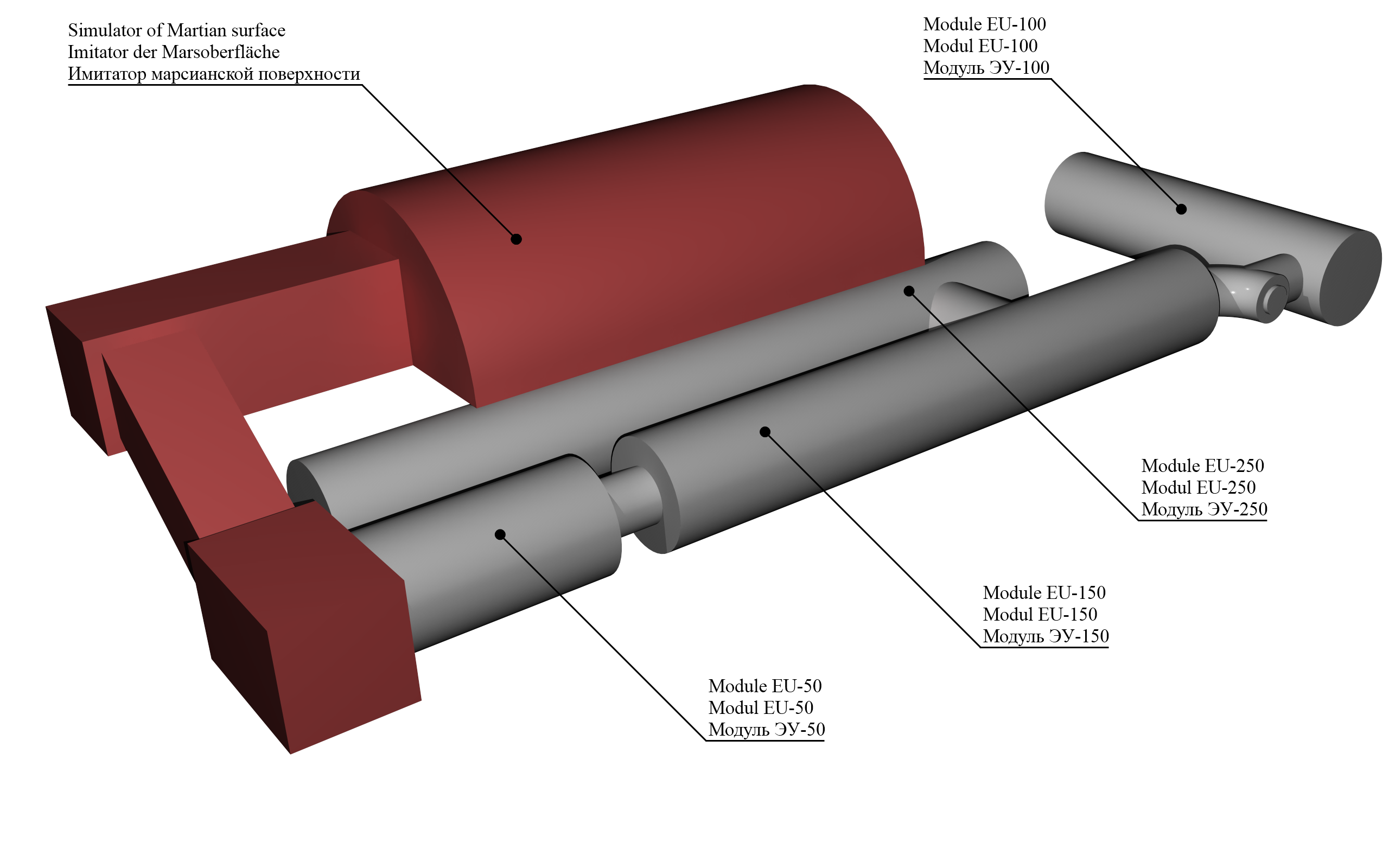 3D-model of the medical technical experimental complex of the project «Mars-500» is shown on this image. The 3D-model includes the modules: EU-250, EU-150, EU-100, EU-50 and a simulator of Martian surface.